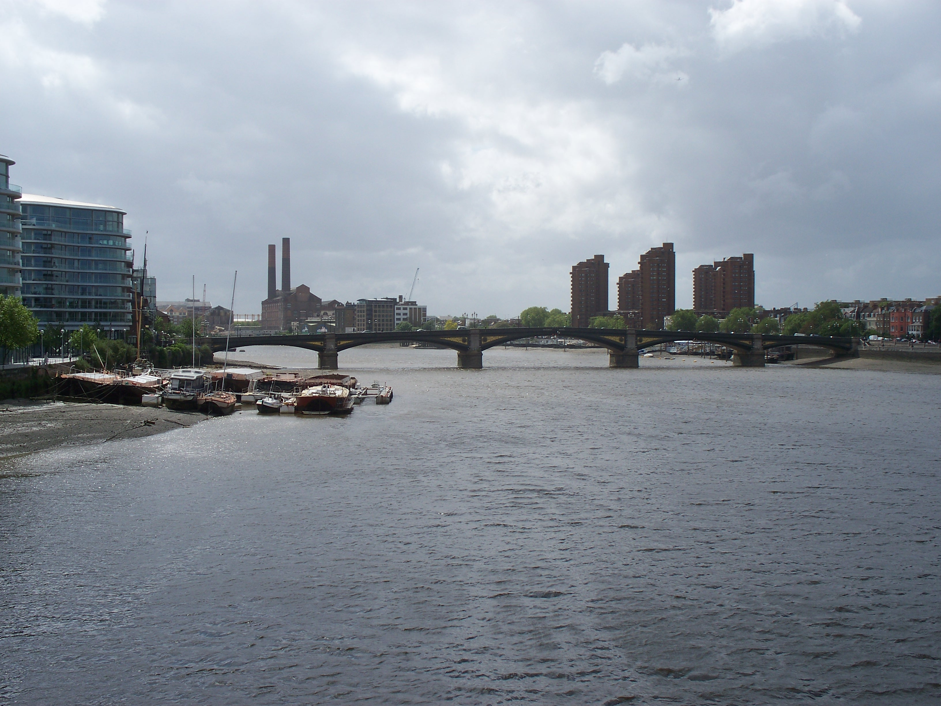 Battersea Bridge, London. Photograph taken in a public location in the UK of a building on permanent public display, and exempt from copyright under Section 62 of the Copyright Designs & Patents Act 1988 ("it is not an infringement of copyright to film, photograph, broadcast or make a graphic image of a building, sculpture, models for buildings or work of artistic craftsmanship if that work is permanently situated in a public place or in premises open to the public")